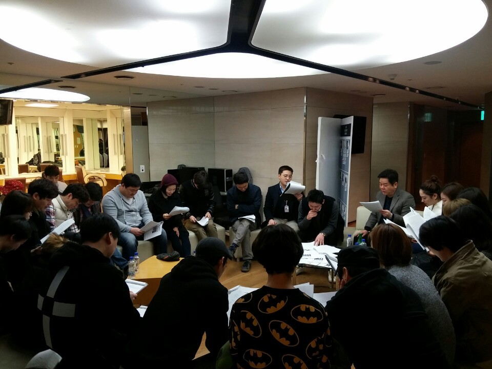 심형래, 신동엽 등이 ‘SNL 코리아’ 아이디어 회의를 하고 있다.